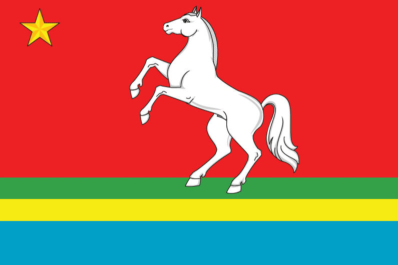 Flag of Molokovskoe, Moscow oblast, Russia